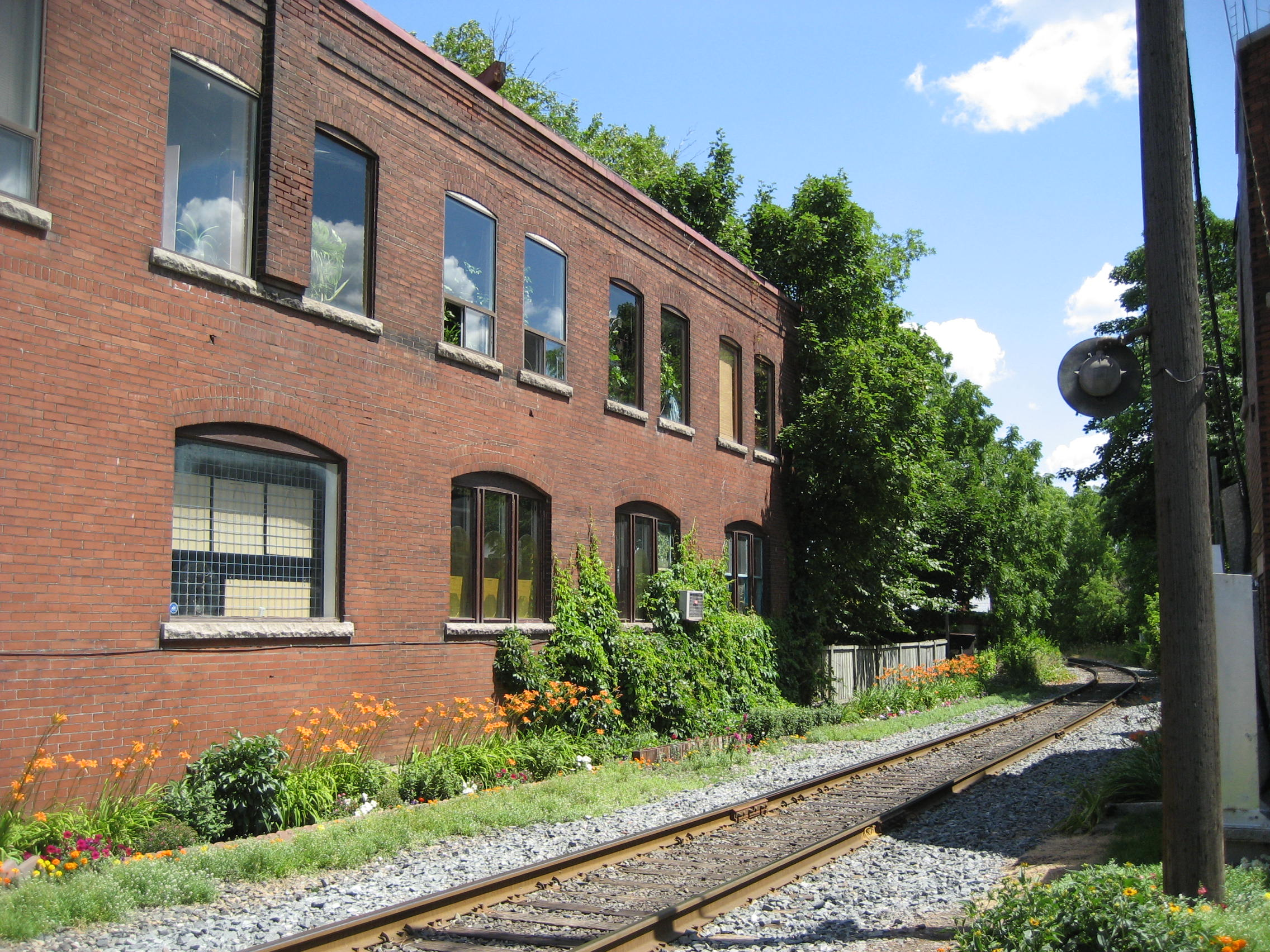 Railway line at Main Street East, near Gage Avenue, Hamilton, Ontario